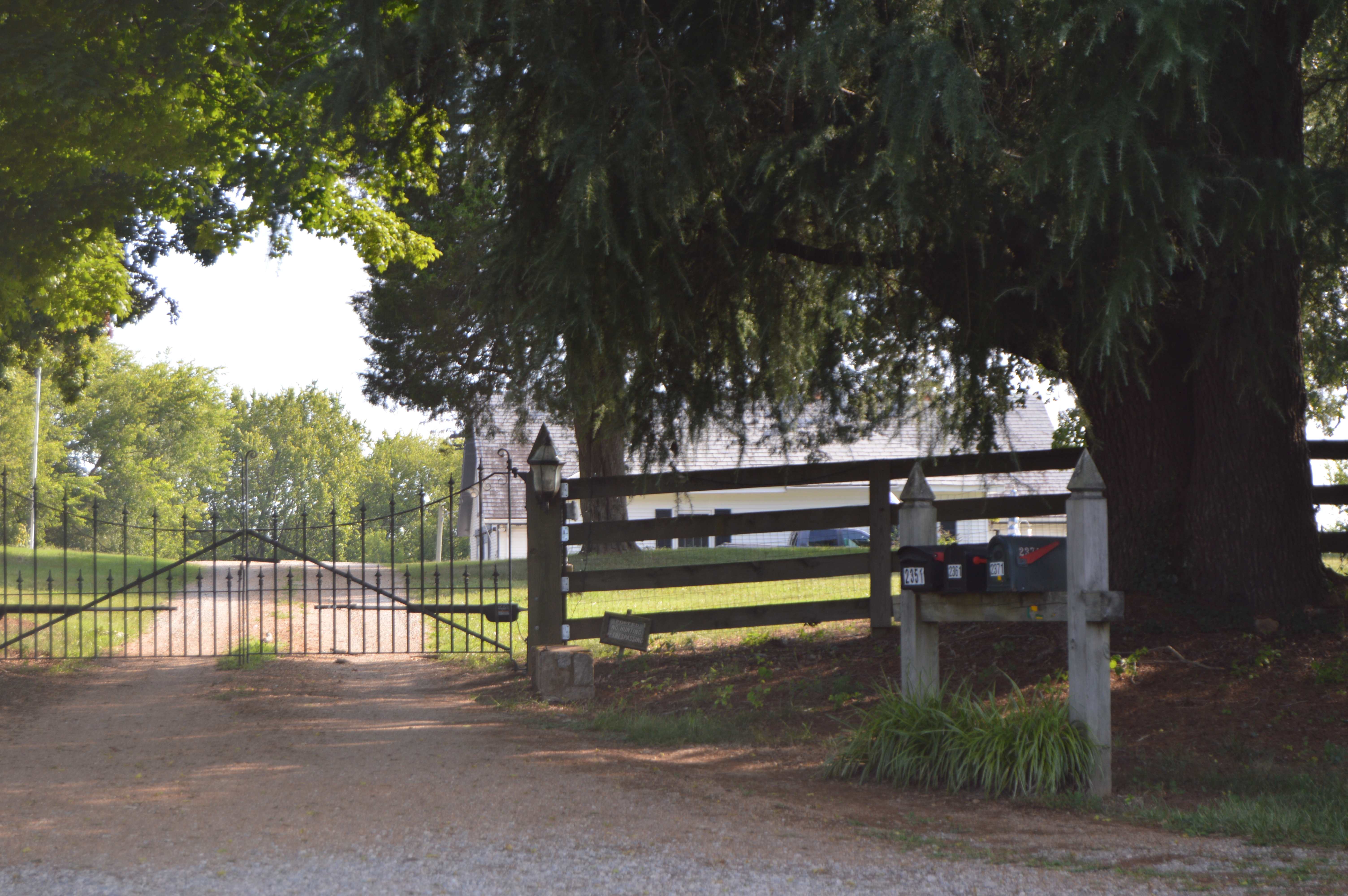 Gate, fence, and outbuilding at the Mount Bernard Complex, located at 2371 W. State Route 6 in south-central Goochland County, Virginia, United States. The complex is listed on the National Register of Historic Places.